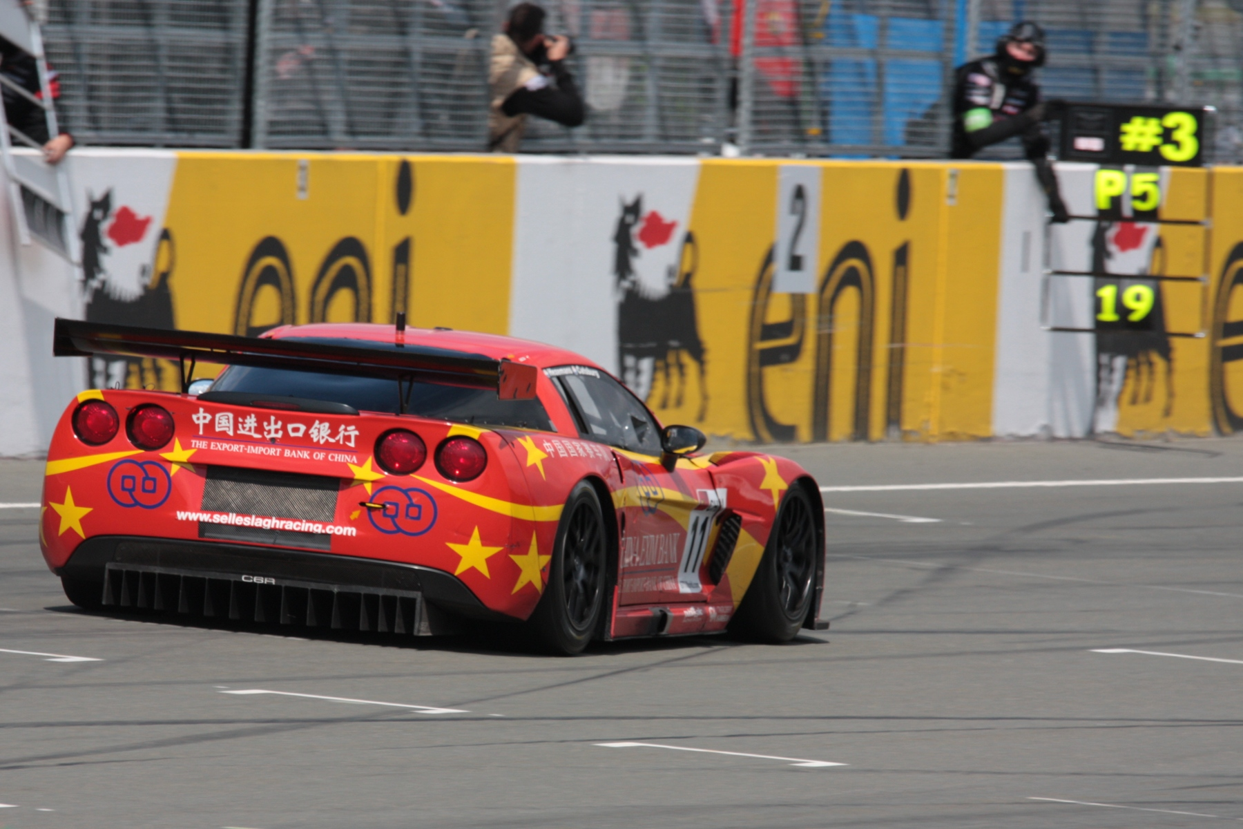 Chevrolet Corvette C6.R of Team China at Sachenring race 2011.